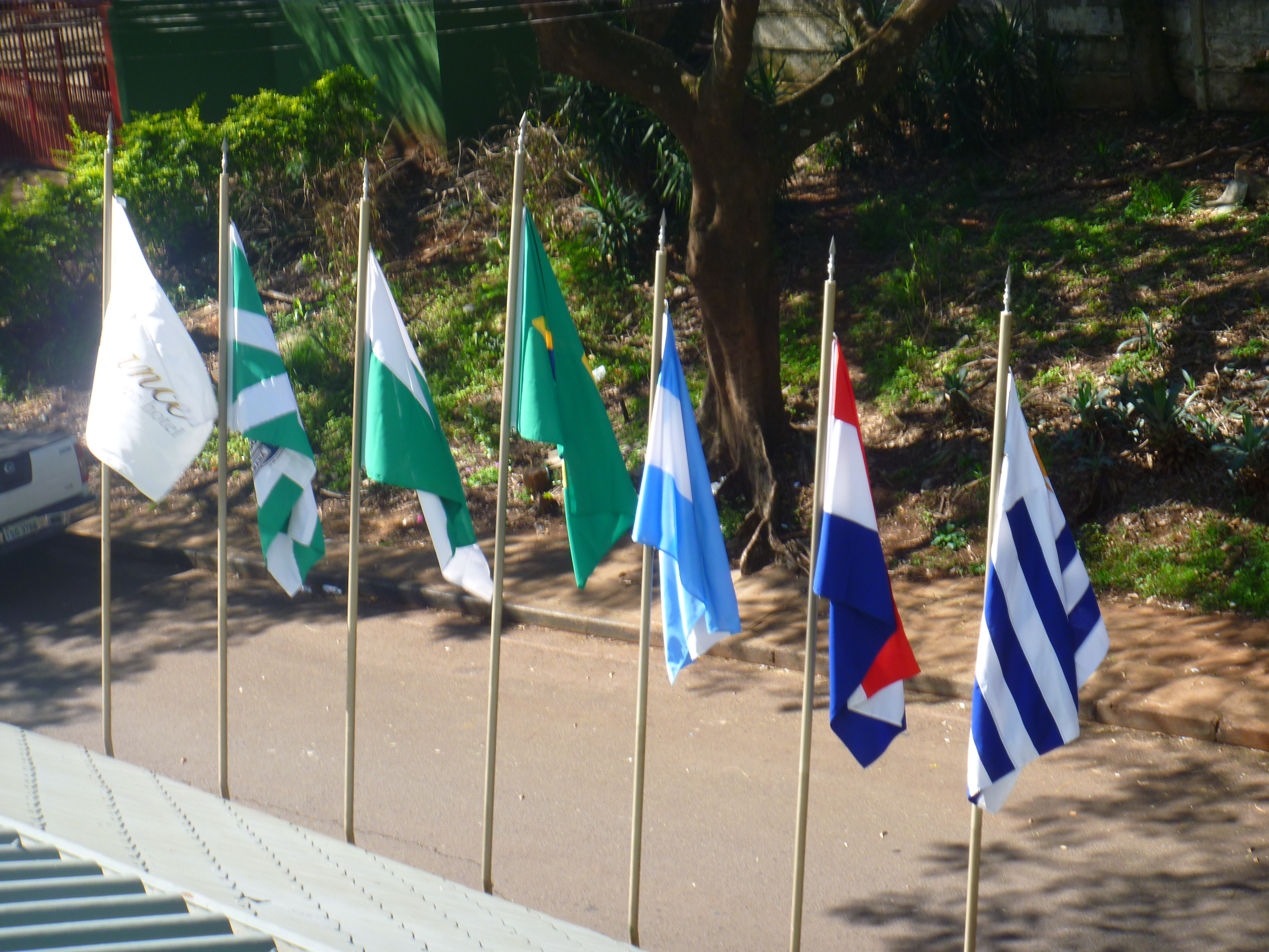 Flags of Brazil, Argentina, ParaguaY, and Uruguay in Foz Do Iguazu, Brazil